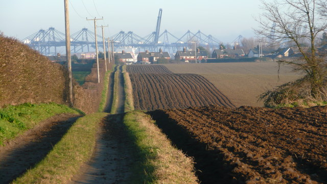 Shotley - rolling fields Footpath to Shotley Gate. The telephoto lens foreshortens the view of the cranes at Felixstowe on the other side of the river Orwell.